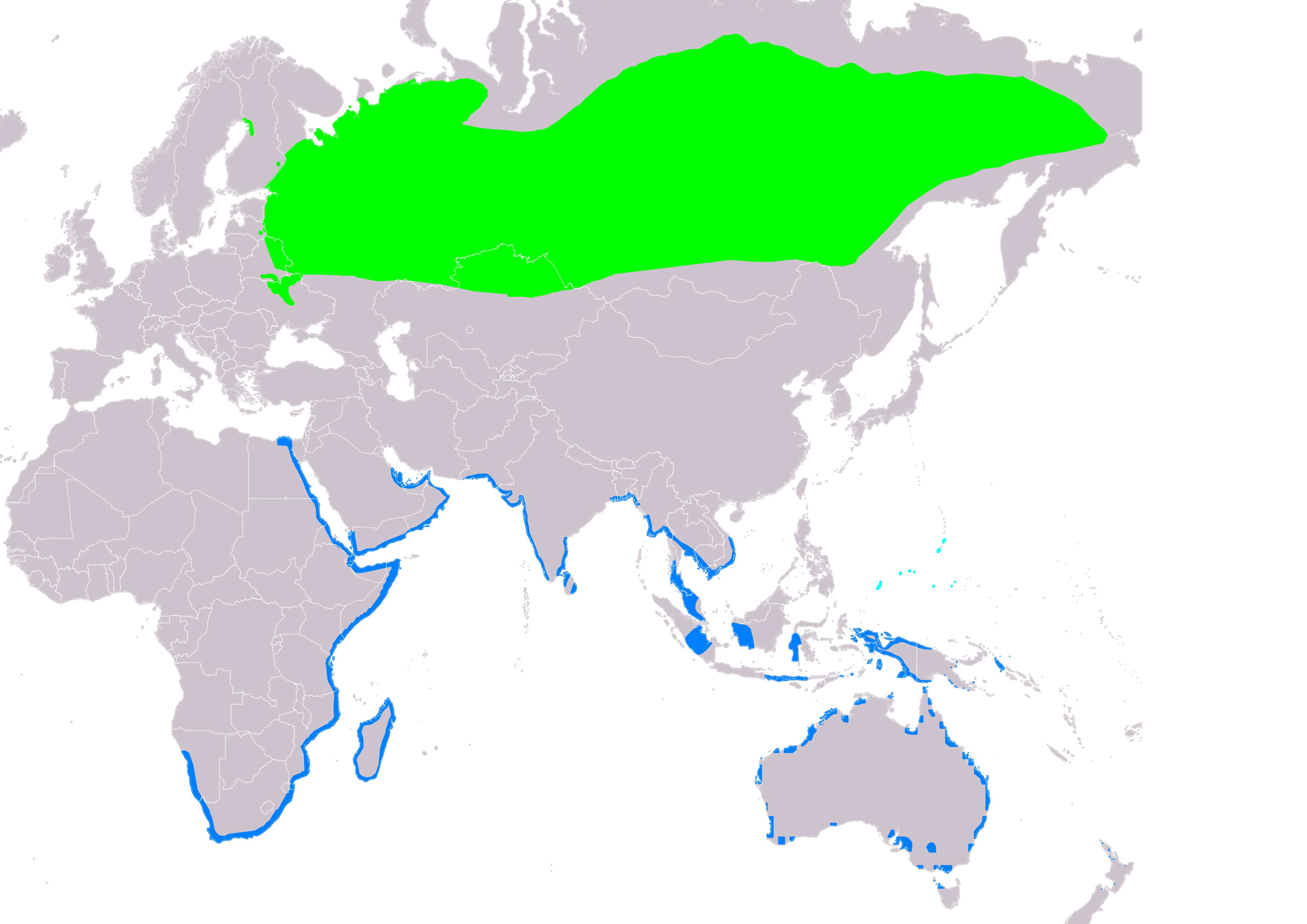 Distribution map of terek sandpiper (Xenus cinereus) according to IUCN version 2020.1 (Compiled by: BirdLife International and Handbook of the Birds of the World (2019) 2019); key: Legend: Extant, breeding (#00FF00), Extant, passage (#00FFFF), Extant, non-breeding (#007FFF)